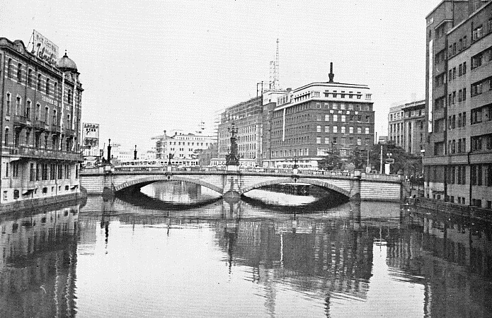 Nihonbashi circa 1960